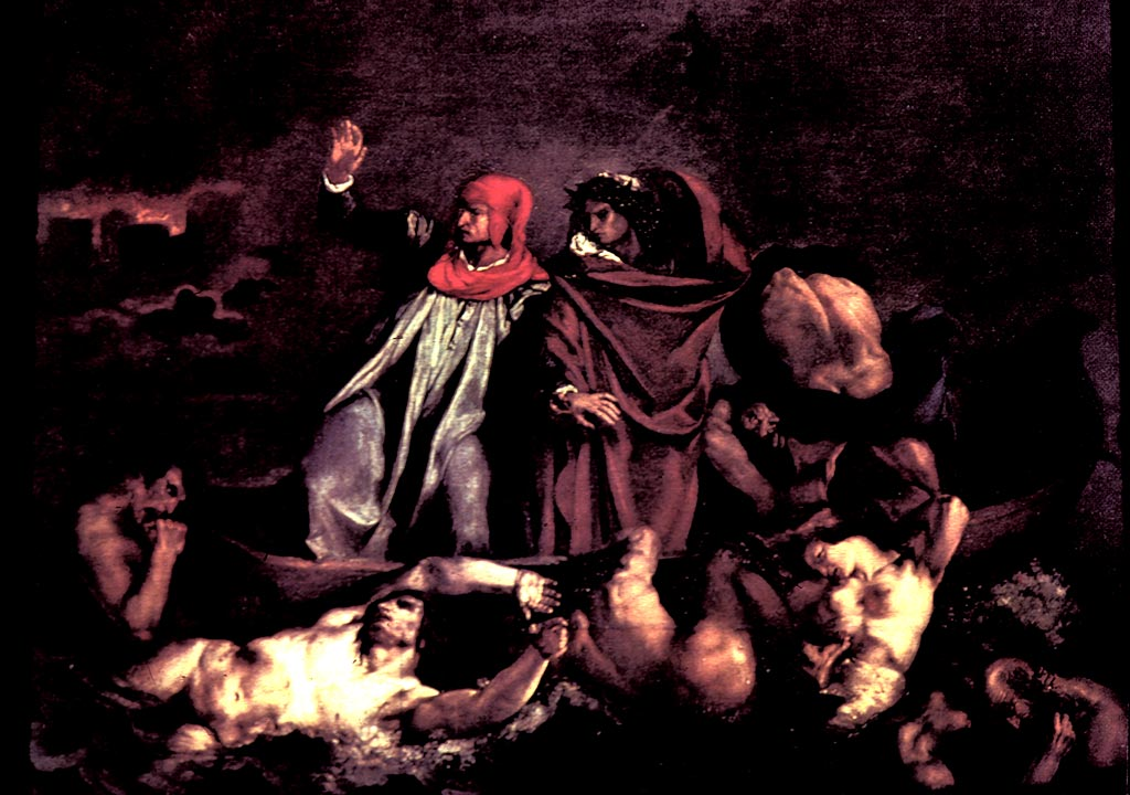 Dante and Virgil in Hell, Painting of Dante's »Divine Comedy, Inferno«, 8. Singing